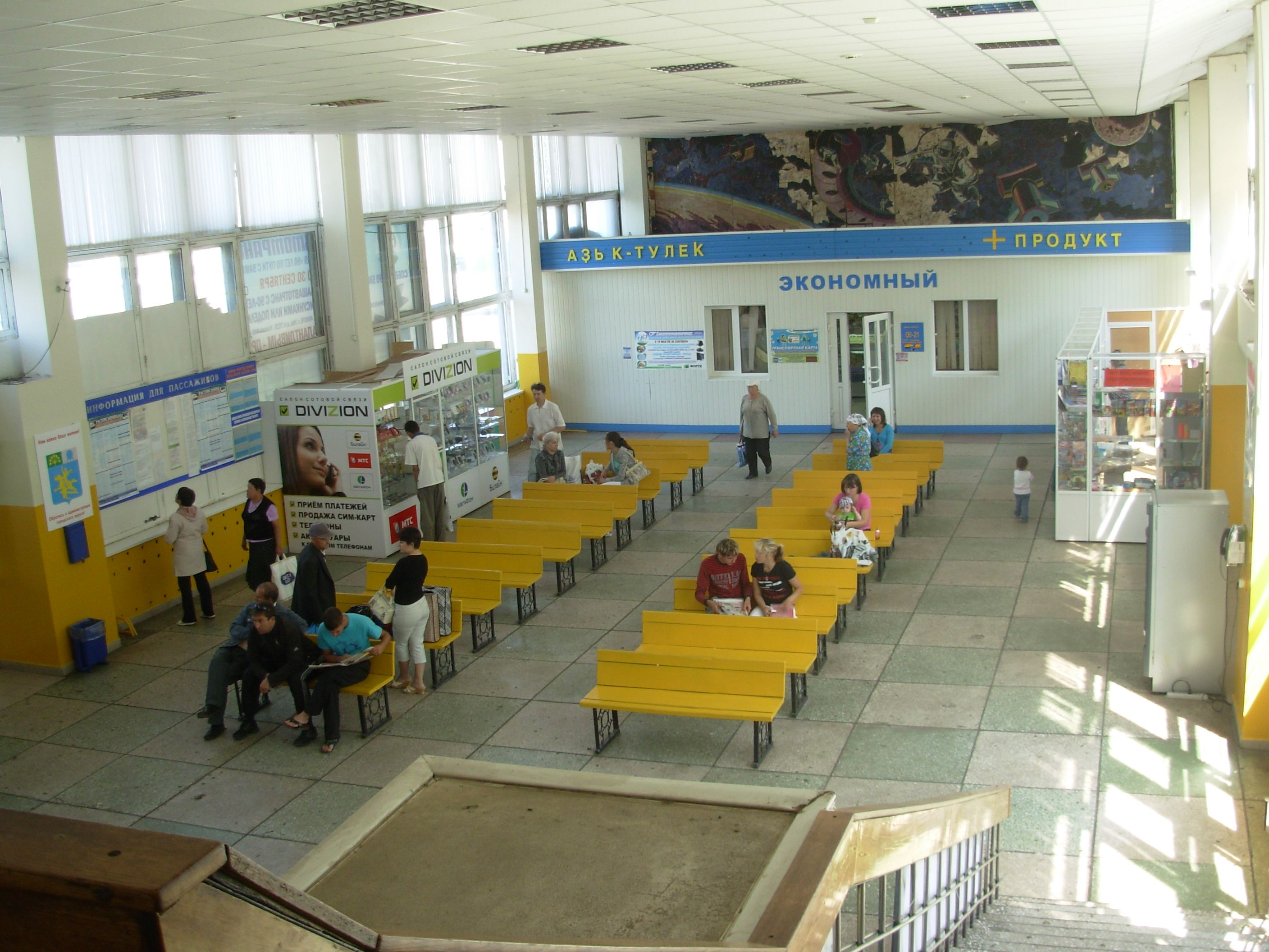 Stations (Salavat)